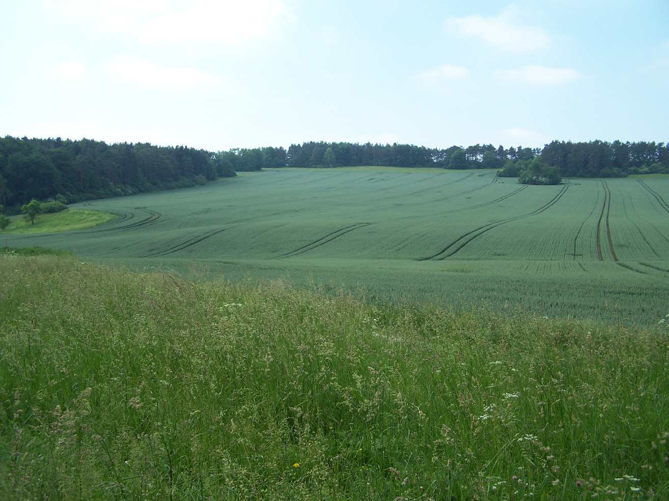 The "Melmental" - a dell midway from Volteroda and Wolfmannsgehau.